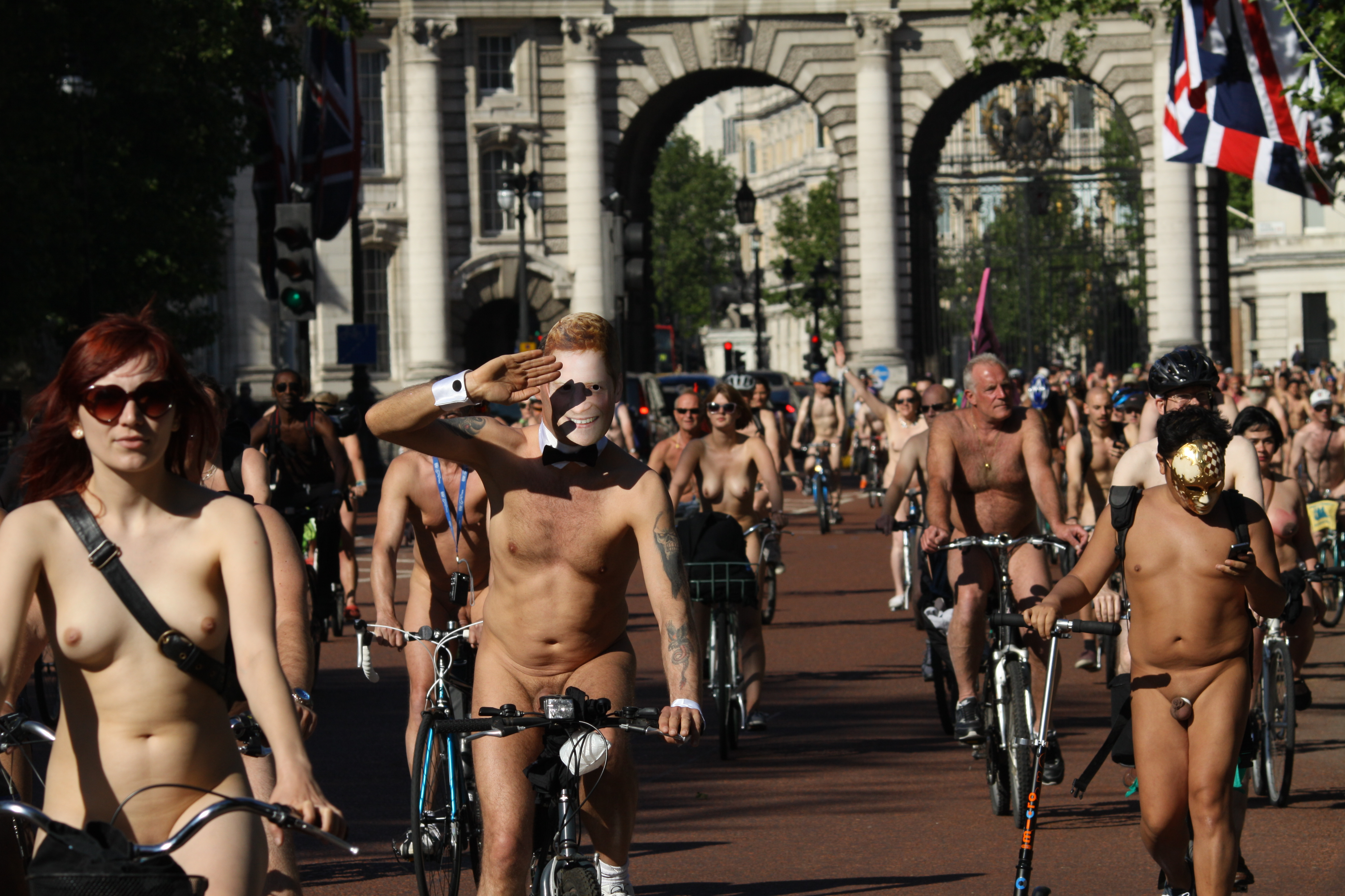 World Naked Bike Ride in London on The Mall street, London, England, Great Britain.